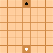 The staring position of the Isola game.